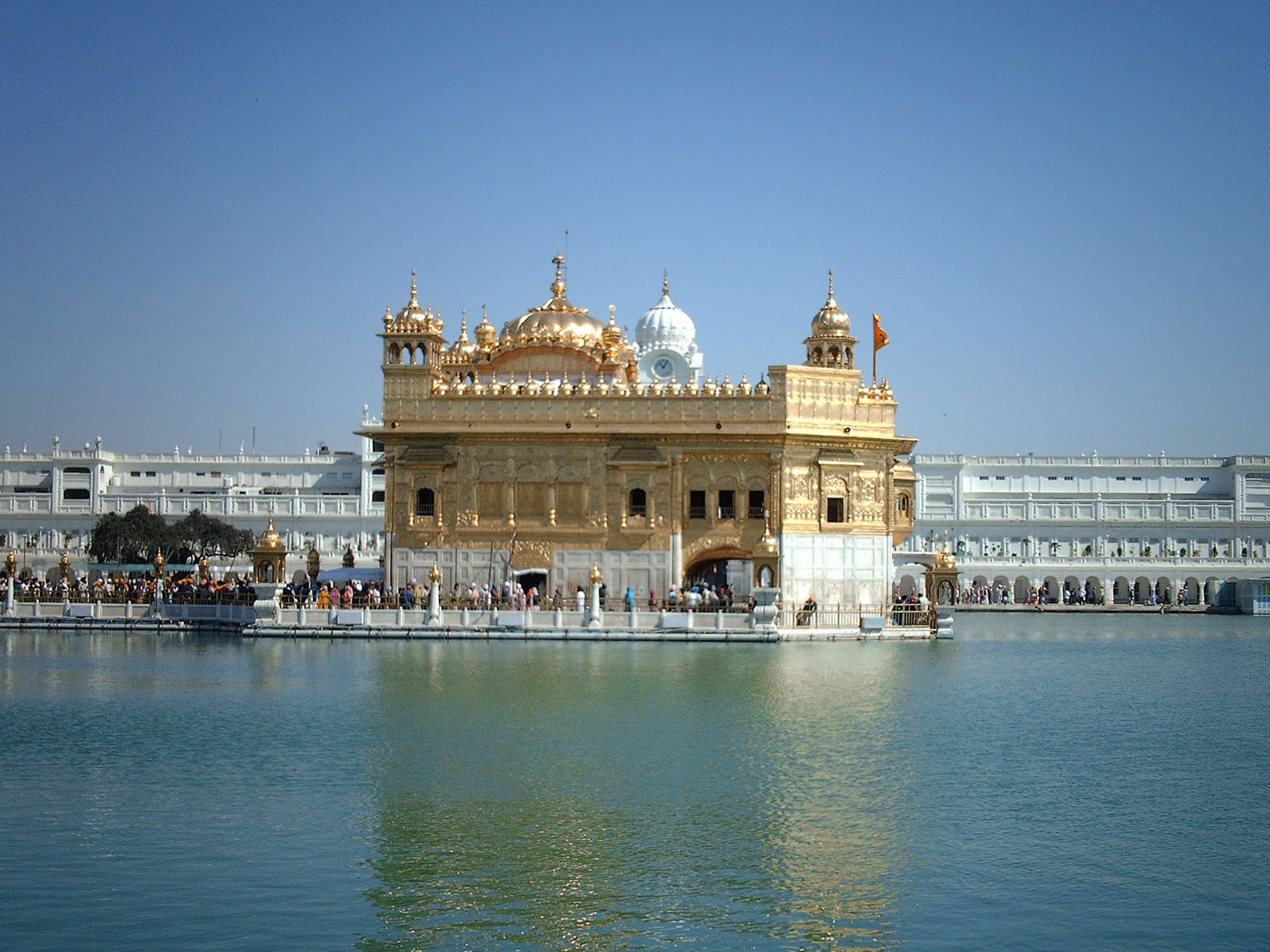 A photo of Harminder Sahib (The Golden Temple) and the surrounding Sarovar (Sacred Pool). Adjusted slightly in Photoshop.